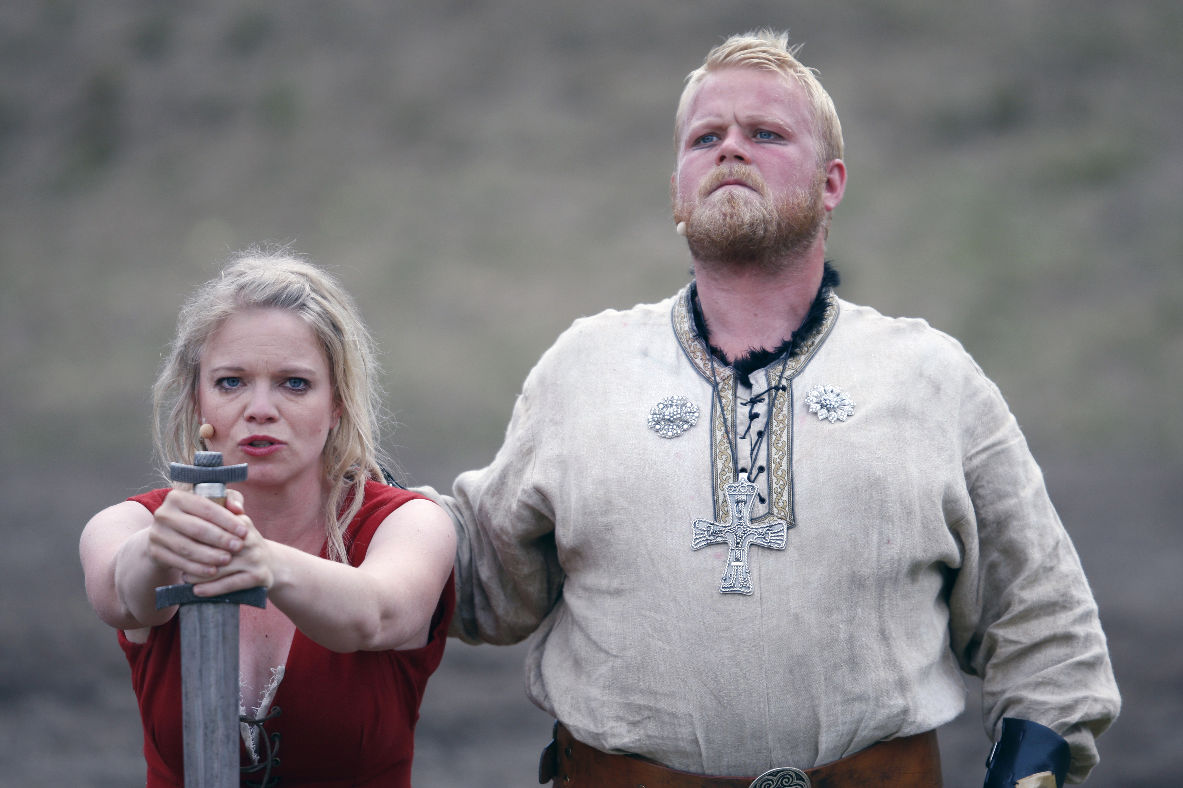 Norwegian actors Anders Baasmo Christensen as king Olaf II of Norway and Eir Inderhaug as Gudrun in the The Saint Olav Drama at Stiklestad 2007. Foto: Leif Arne Holme